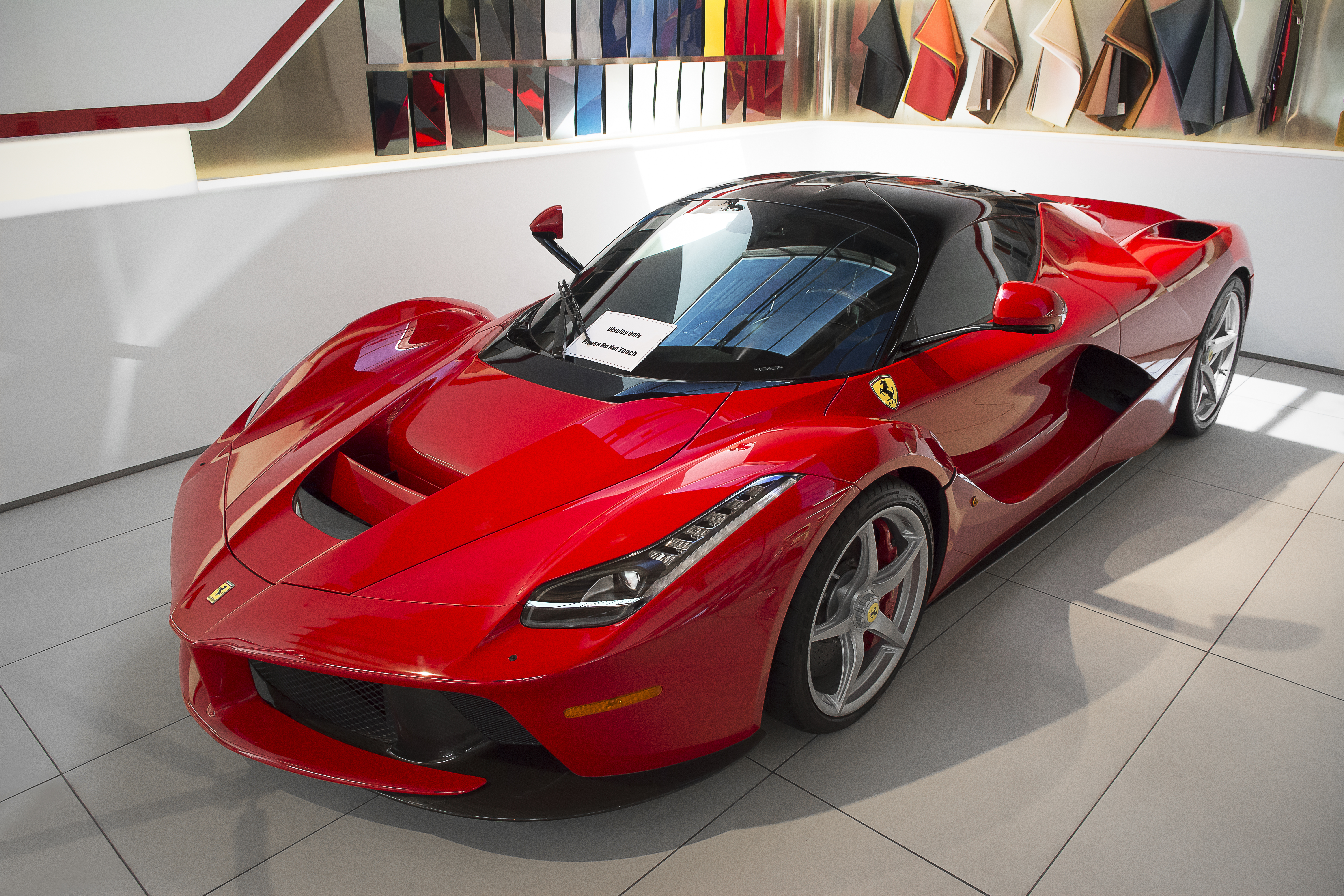 LaFerrari in Beverly Hills - front right side view. dealership new... FERRARI RED The Ferrari LaFerrari is also known as F70, and by its project name, F150. (Sign on the windshield) Display Only. Please Do Not Touch. I don't usually post dealership photos but I'll make an exception for the LaFerrari. (cc) Creative Commons Personal and Commercial with Attribution. If you use this photo make sure you source with a link back to my site at